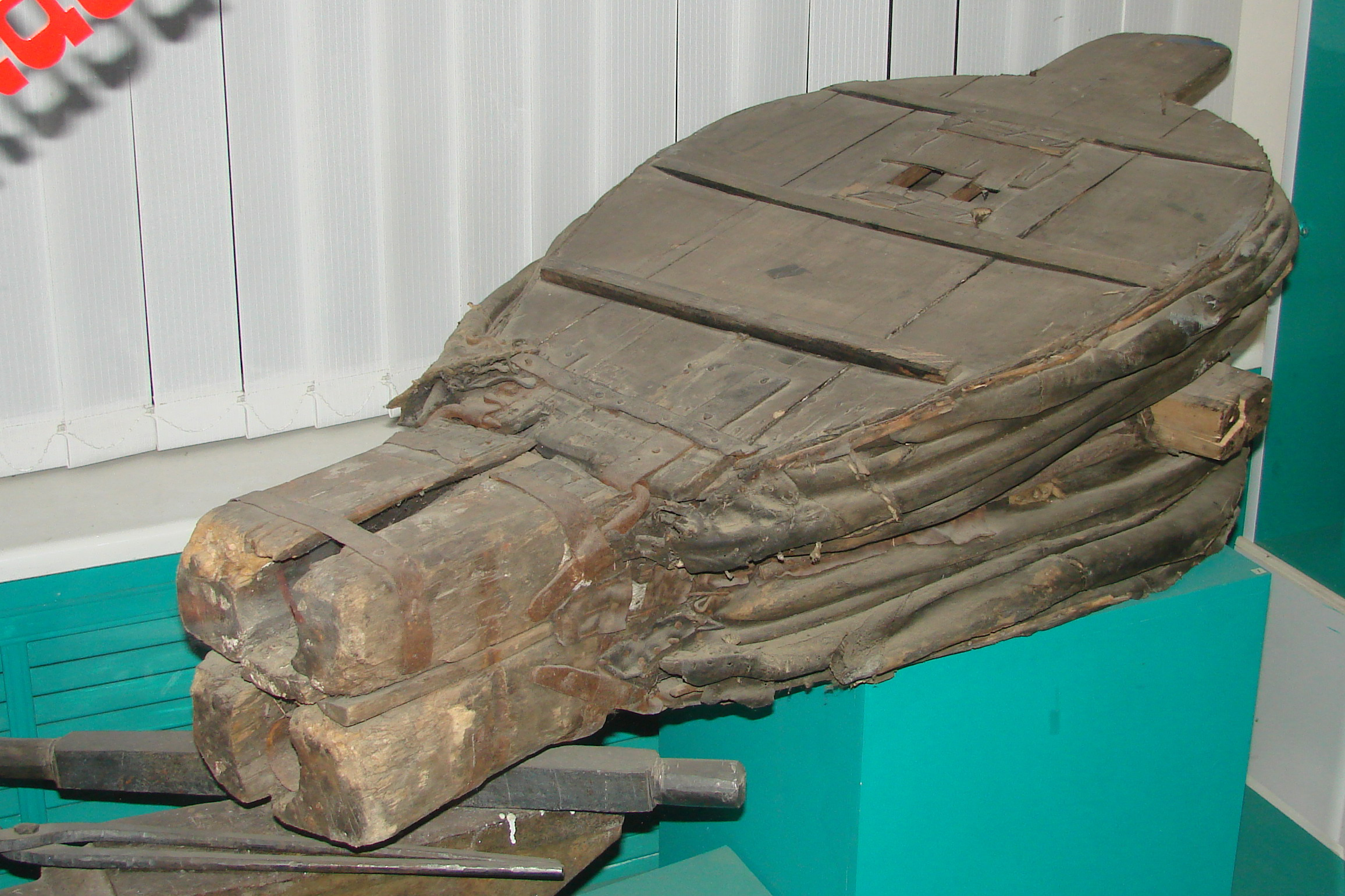 Russia, Vologda PTO museum, Bellows